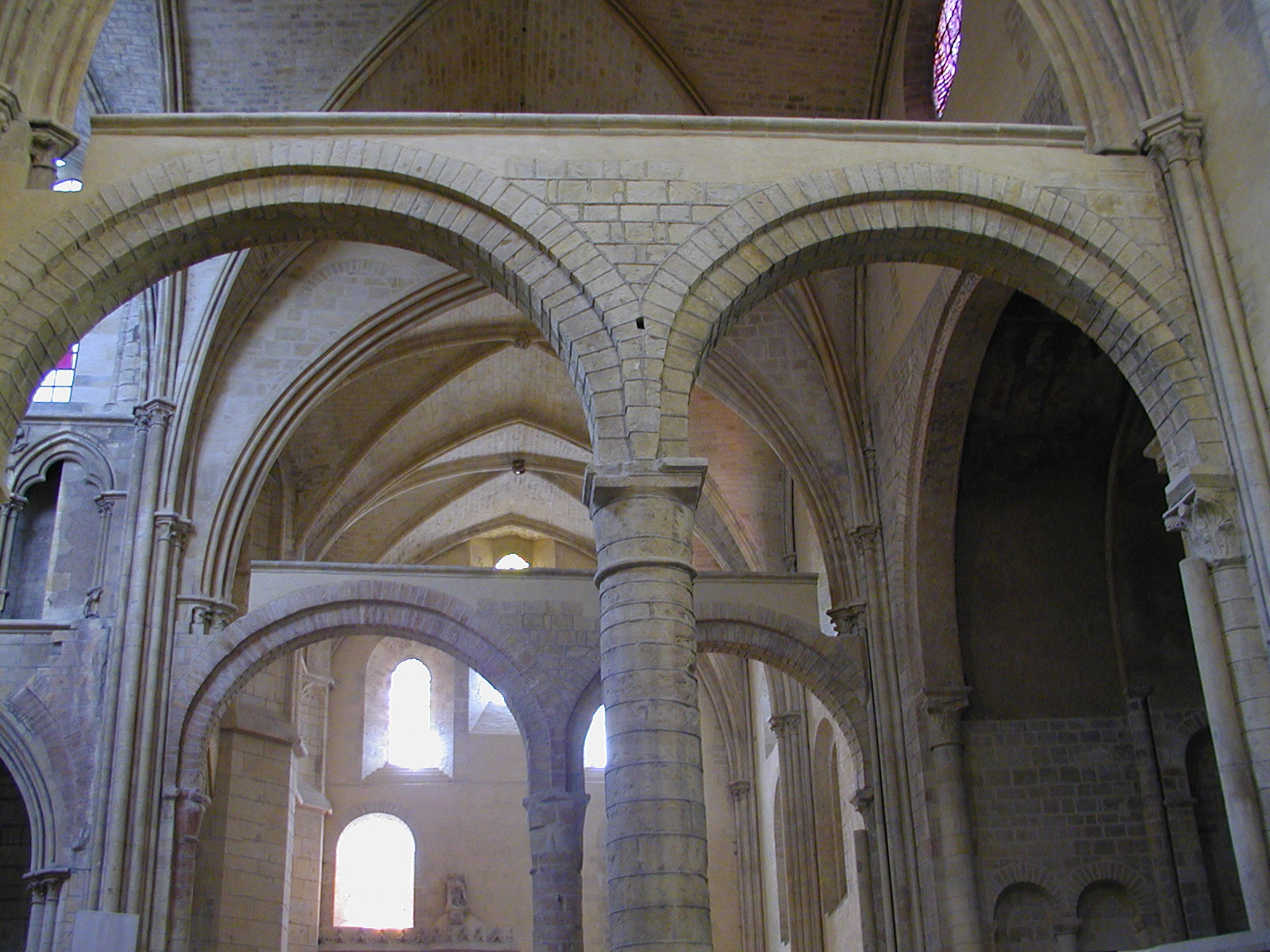 Nevers, Cathedrale, Transept